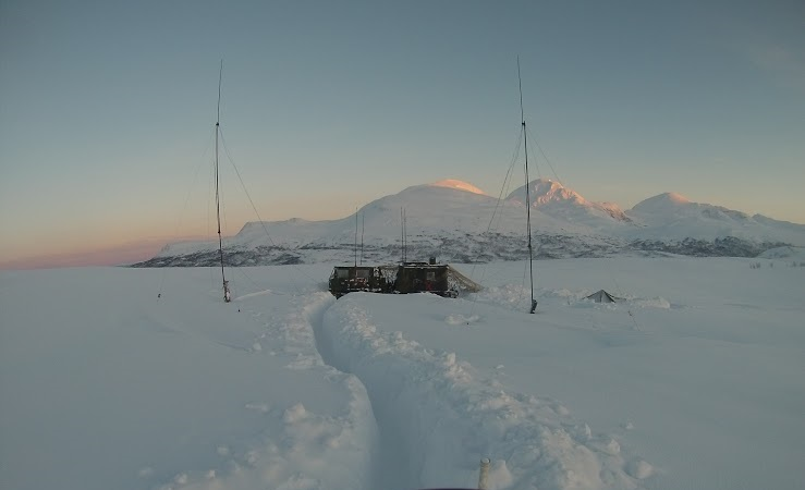 A radio communication team with a Bandvagn 206 from Army of Norway during Cold Response 2014, Bardufoss.